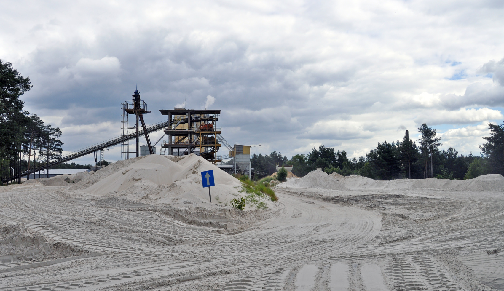 Tomaszow Natural Resources Mine "Biała Góra"